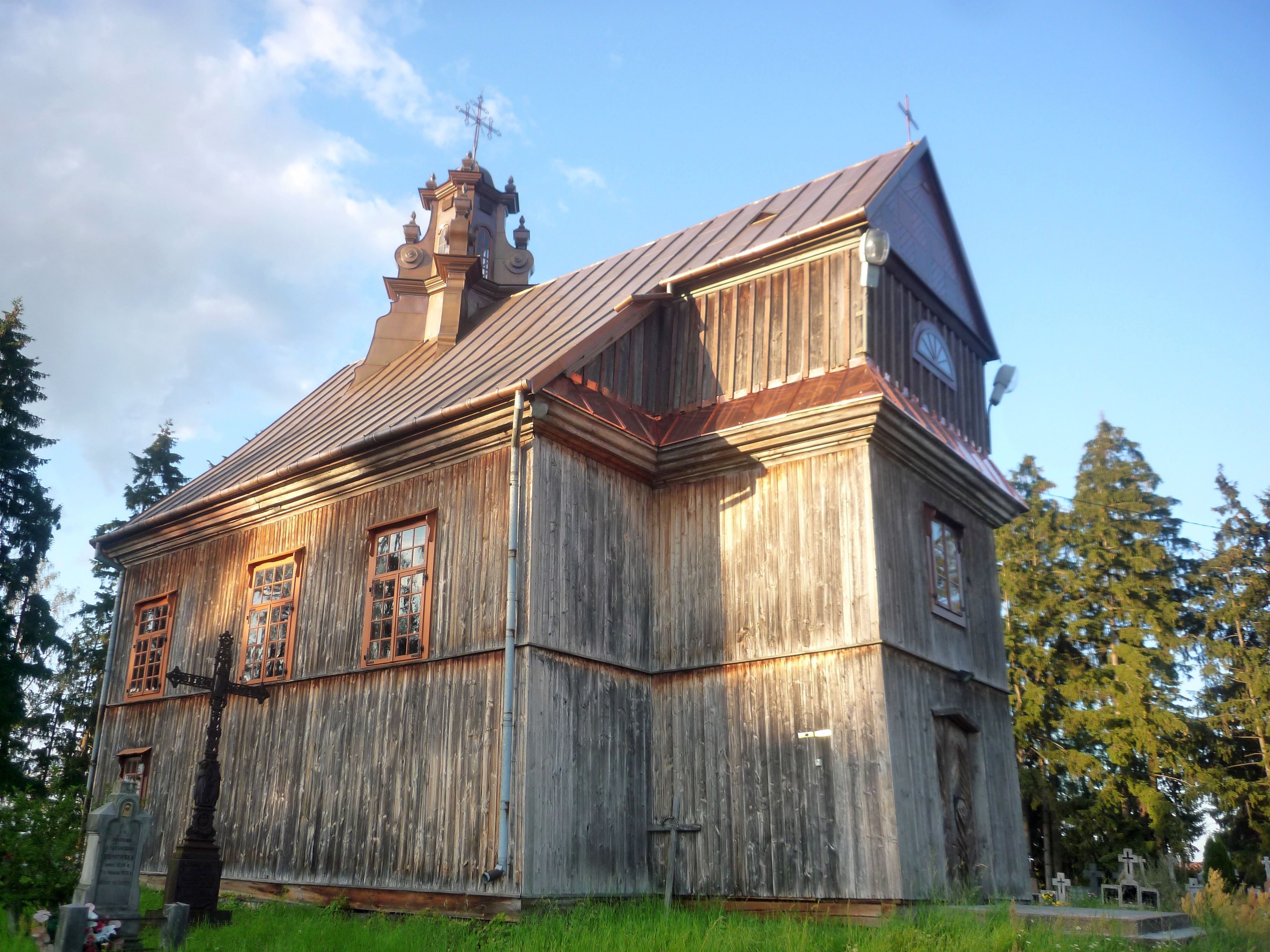 Church of the Exaltation of the Holy Cross, parish cemetery in Sokoły, Poland